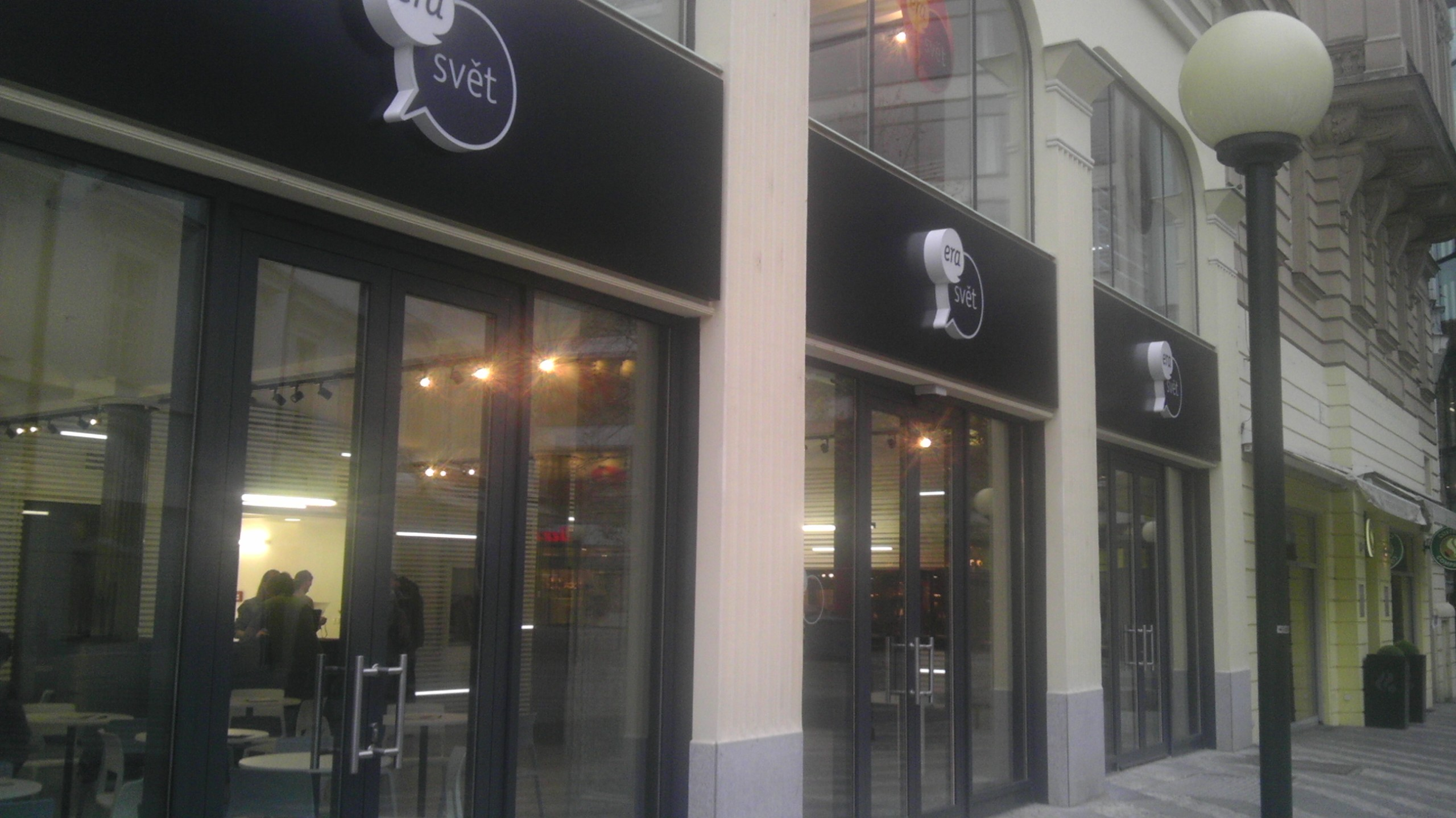 EraSvět (Era is brand of ČSOB) on Jungmann square in Praha